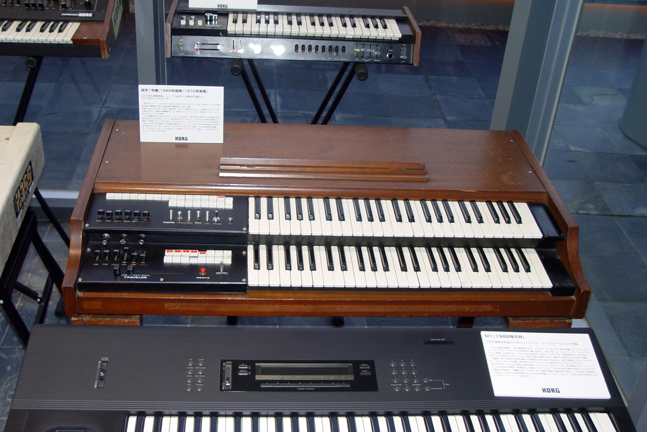 Prototype Korg synthesizer on display in the ground floor museum at their Tokyo office.